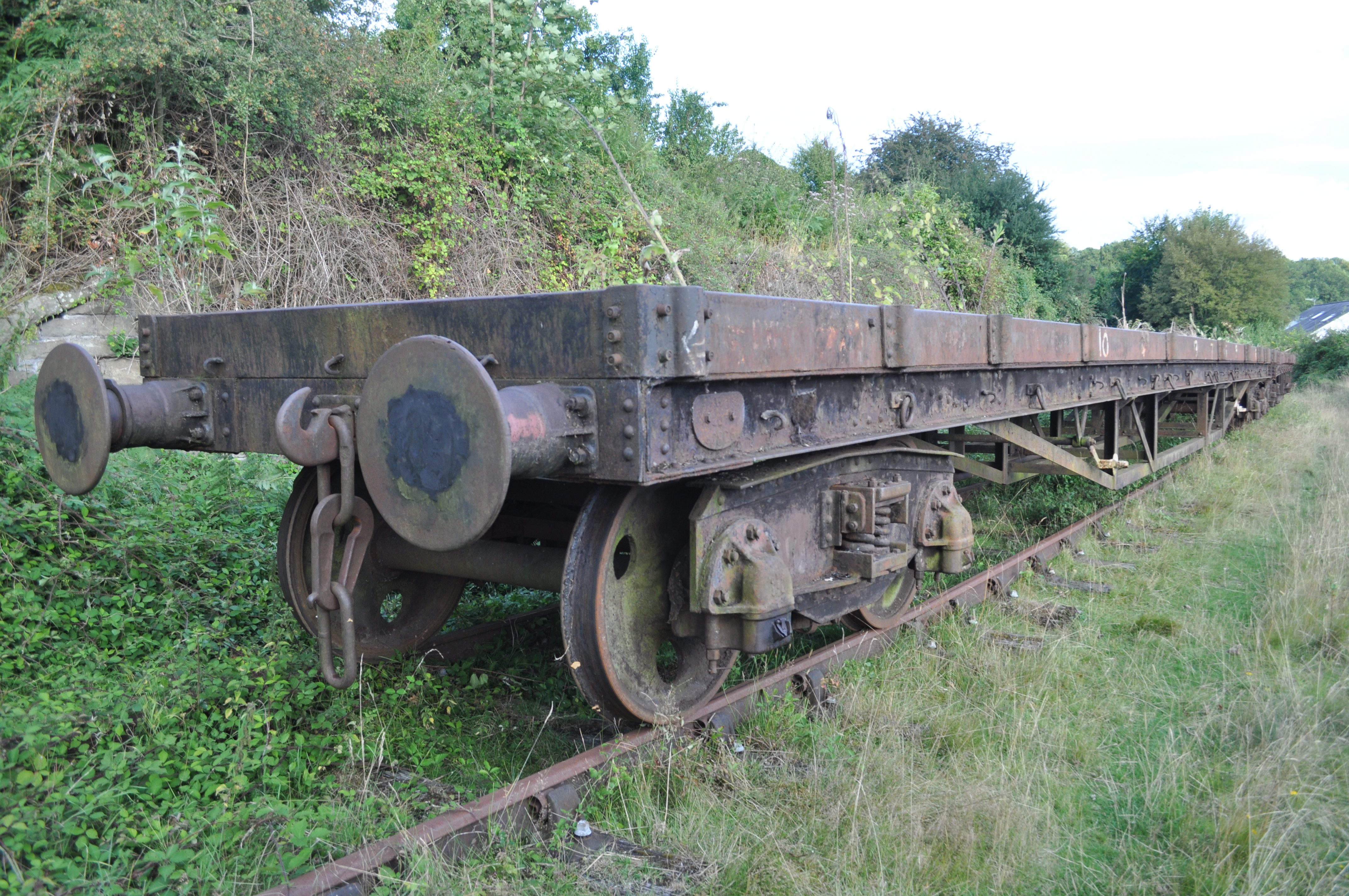 W60828 (Gane A) at Whitecroft, Dean Forest Railway